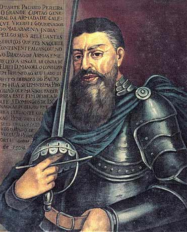 Duarte Pacheco Pereira was a 15th century Portuguese sea captain, explorer and cartographer. He travelled particularly in the central Atlantic Ocean west of the Cape Verde islands, along the coast of West Africa and to India.